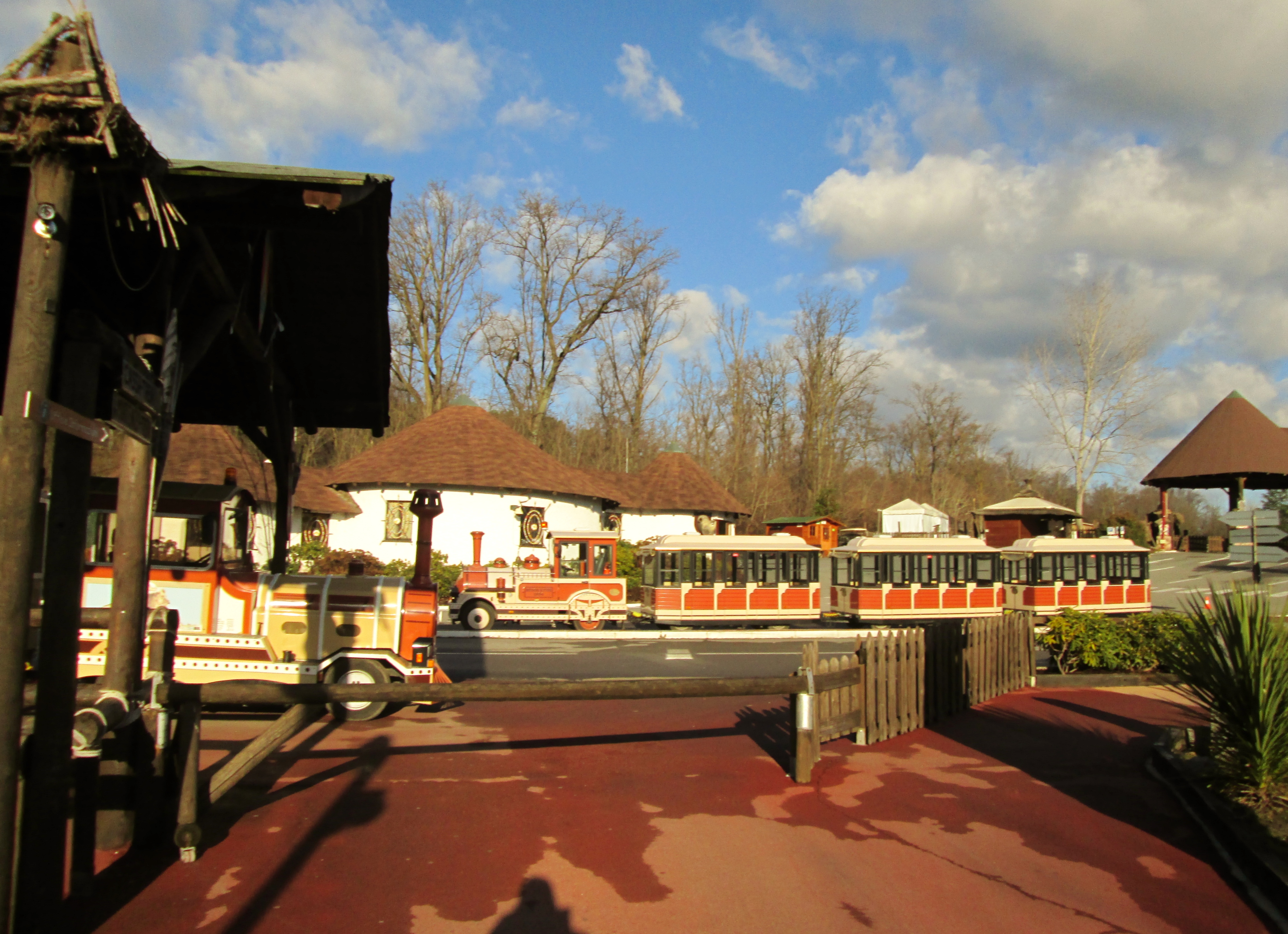 Electric Safari Trains at Pombia Safari Park ITALY